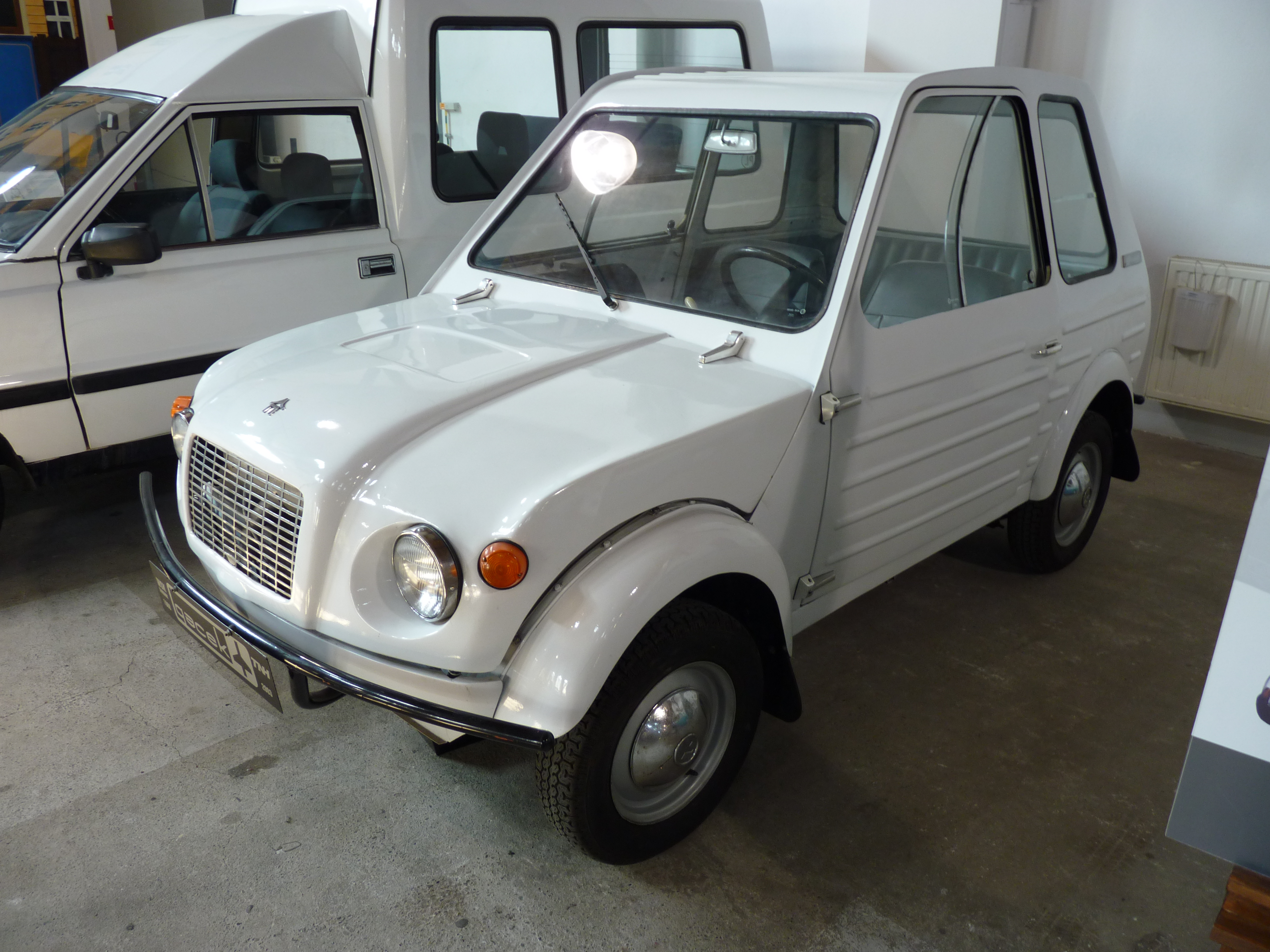 Classic Moto Show 2014 in Kraków.